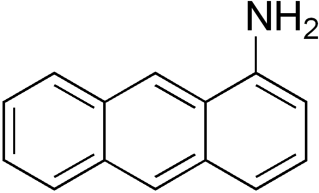 chemical structure of anthramine, 1-anthraceneamine